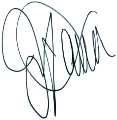 This is the signature of American actress, Jennifer Lawrence. The image was traced using Adobe Illustrator